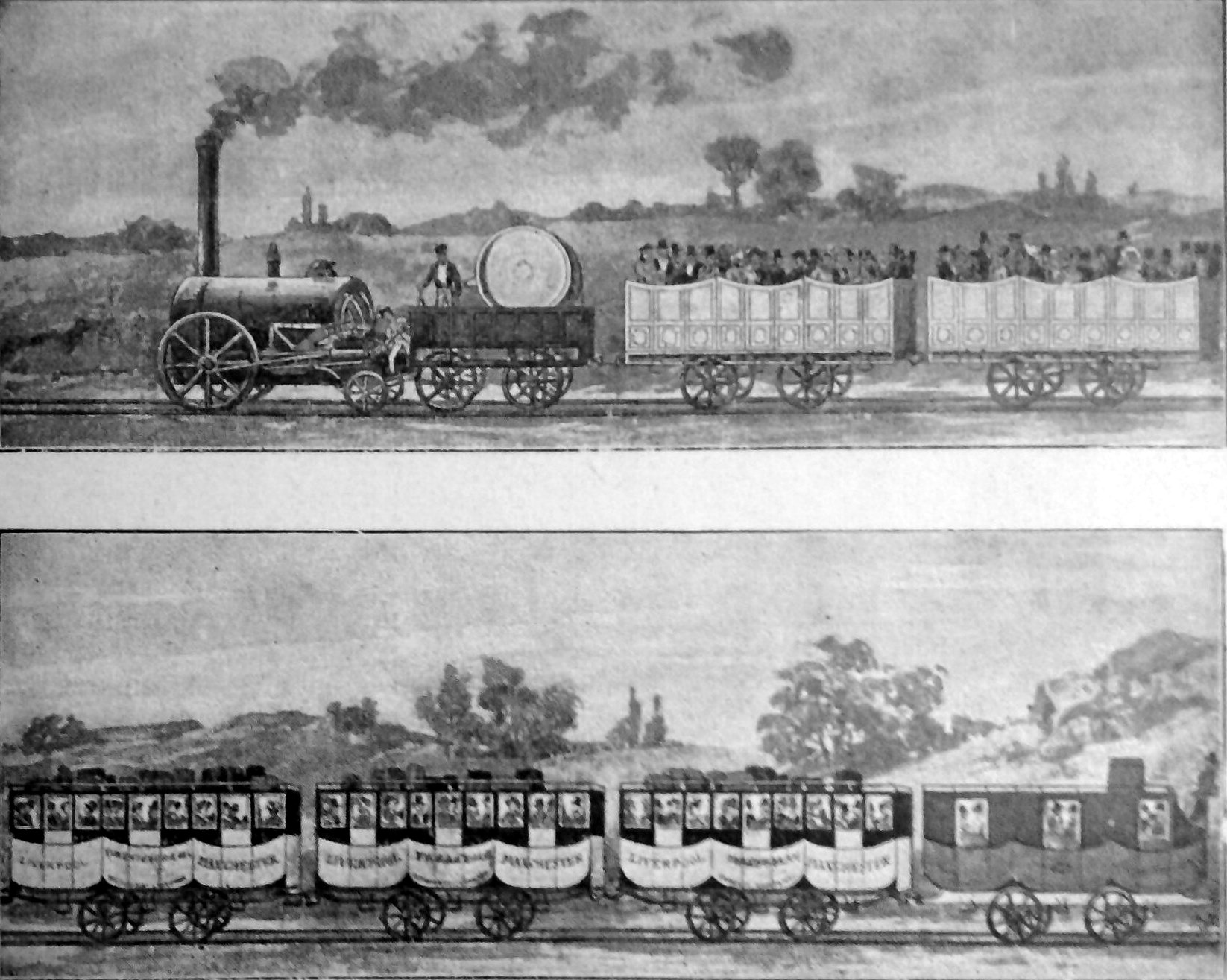 The first passenger carriage in Europe, 1830, George Stephenson´s steam locomotive, Liverpool and Manchester Railway